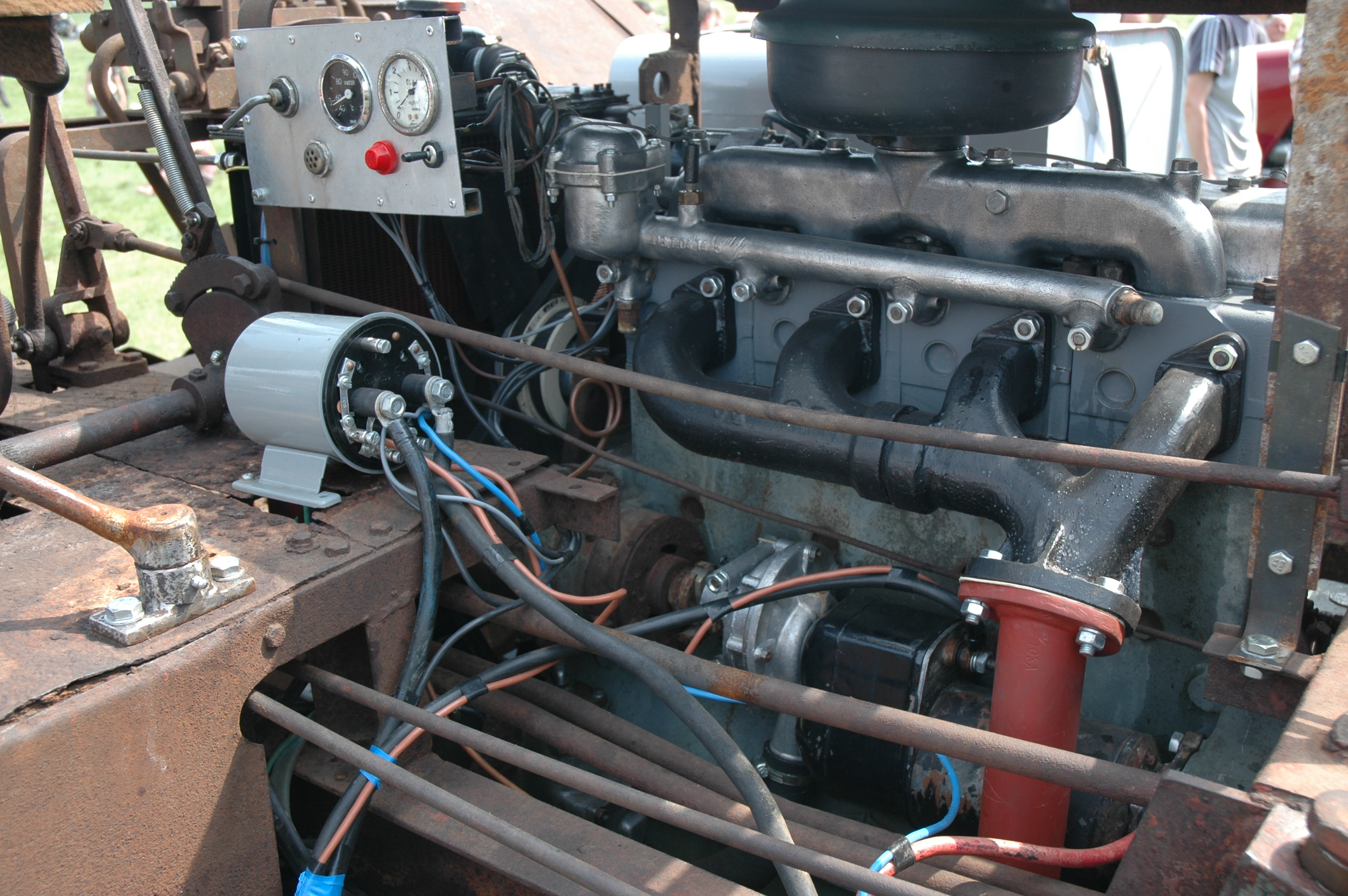 Dutra DR-50 dumper